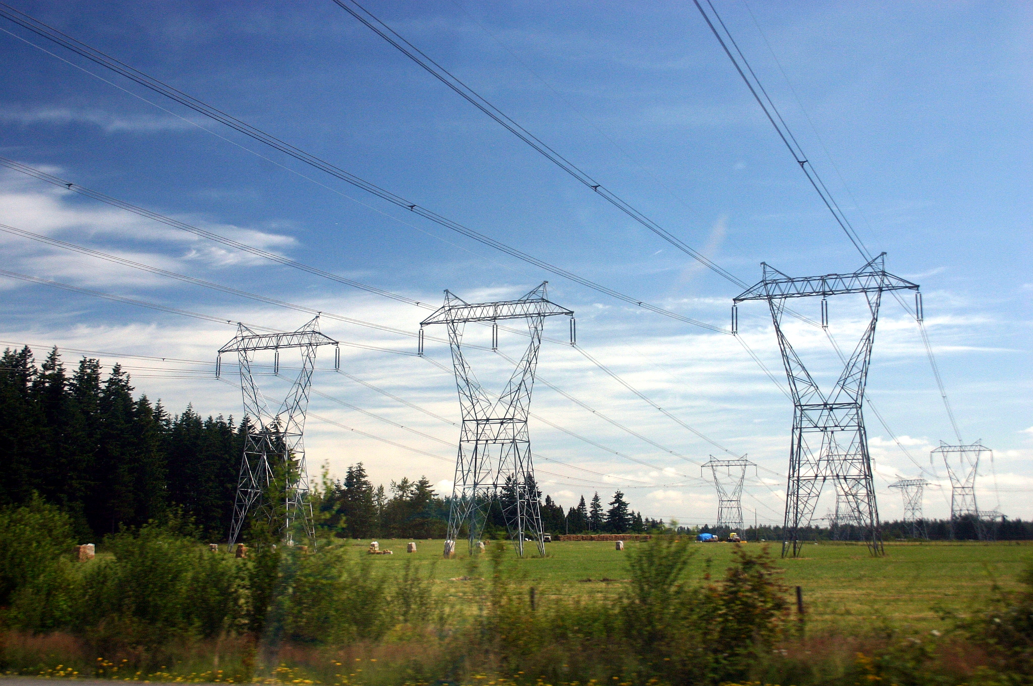 This photo shows a three-phase electric power transmission, along I-5 between Seattle and US/Canada border.